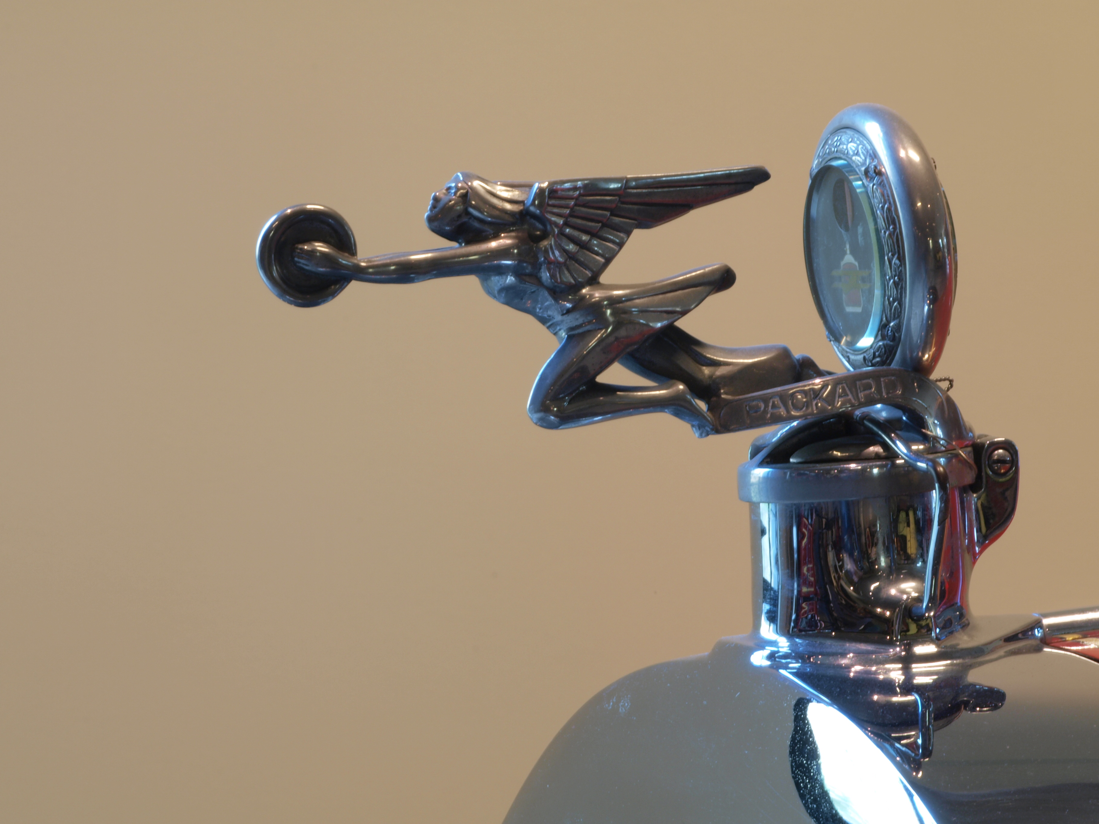 1926 Packard Six (3rd series, model 326) Runabout, body style #223. Accessory Boyce MotoMeter and Deluxe hood ornament "Goddess of Speed" Photographed at the Louwman museum / Louwman Collection, The Netherlands.